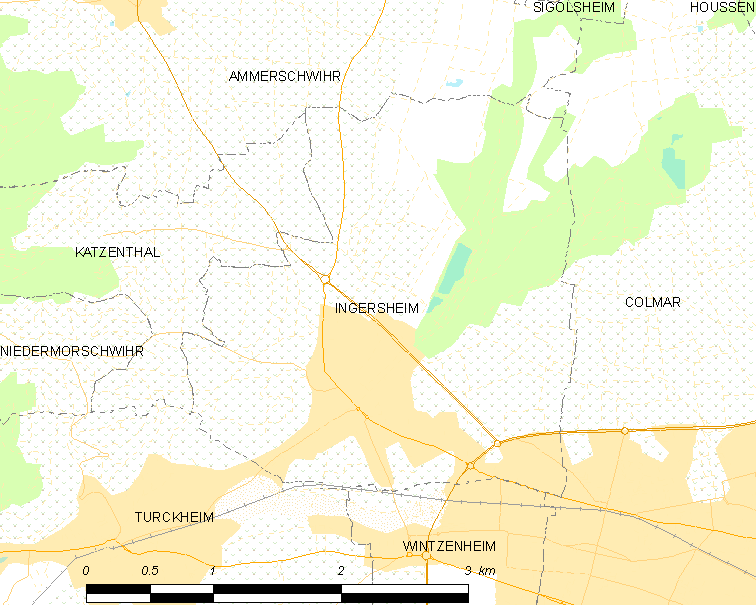 Map of French municipality